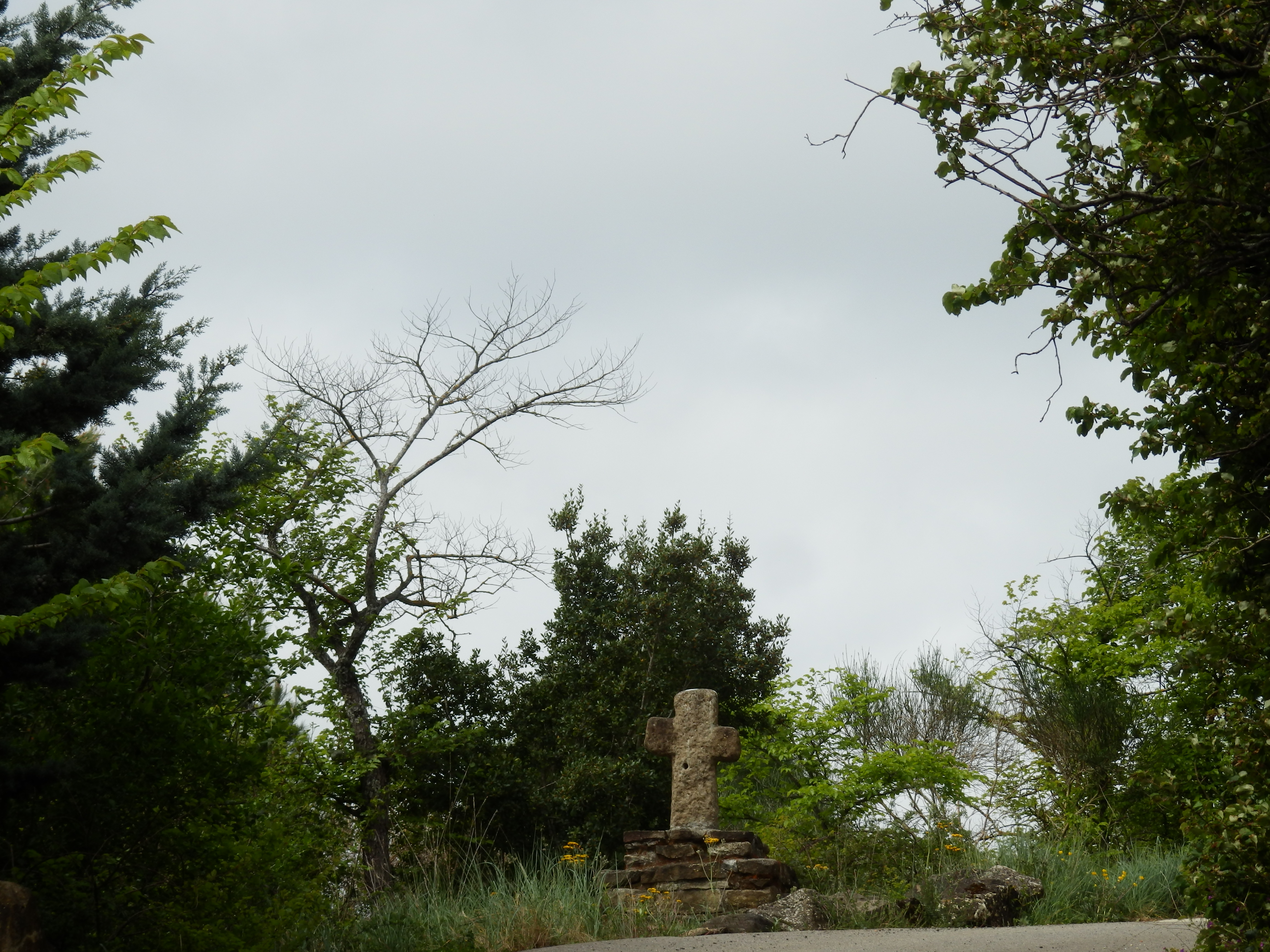 Calvary in Conilhac-de-la-Montagne, Aude, France